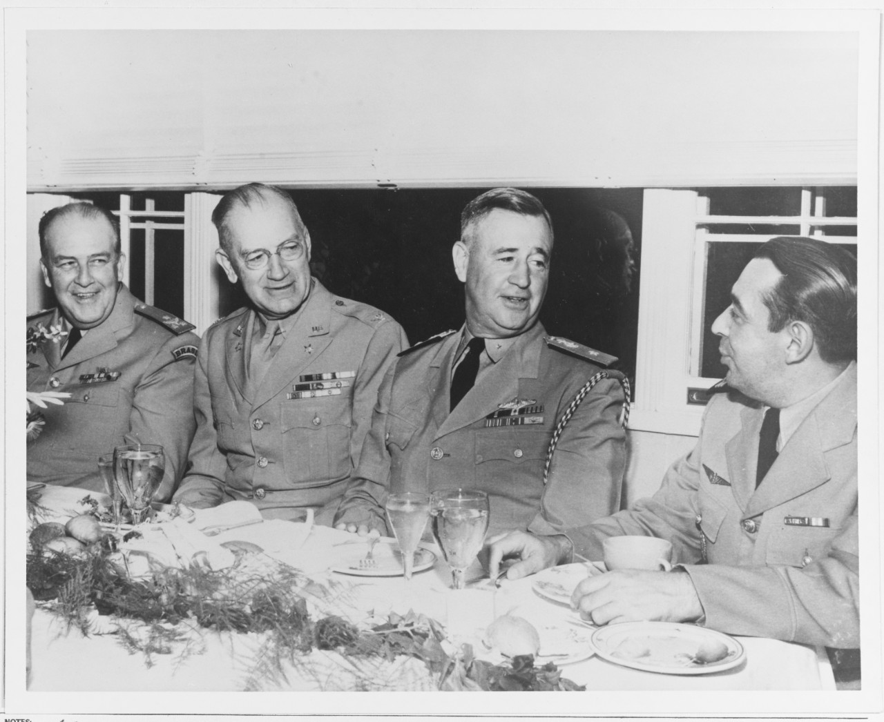 Dinner in honor of General Trompowsky, Chief, Brazilian Air Staff, L to R: Major Brigadeiro Armando Figeira Trompowsky, Colonel Charles G. Mettler, Chief, BOMID, Commodore Howard H.J. Benson, USN, Colonel Hugo Da Cunha Machado, BAF. 2 April 1945